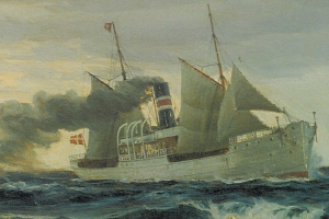 S(S Norden's first of several ships called Norden.